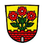 Coat of Arms of Rimpar